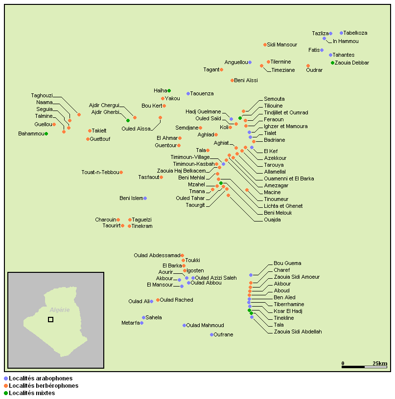 Linguistic map of the Gourara oases complex (acc. to J. Bisson/Encyclopédie Berbère [1])